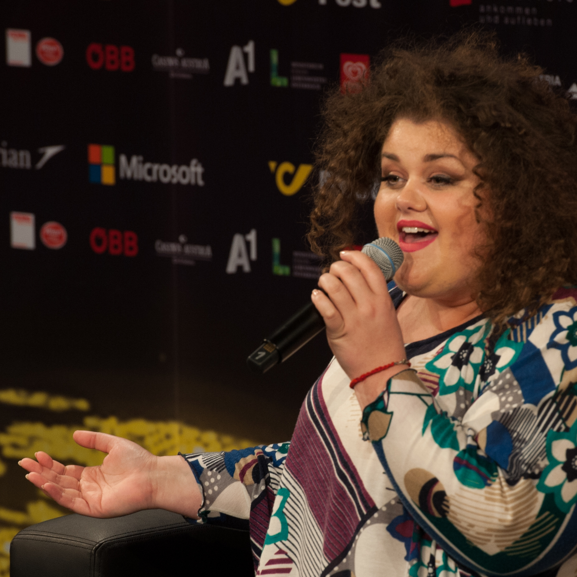 Eurovision Song Contest Vienna 2015: Bojana Stamenov